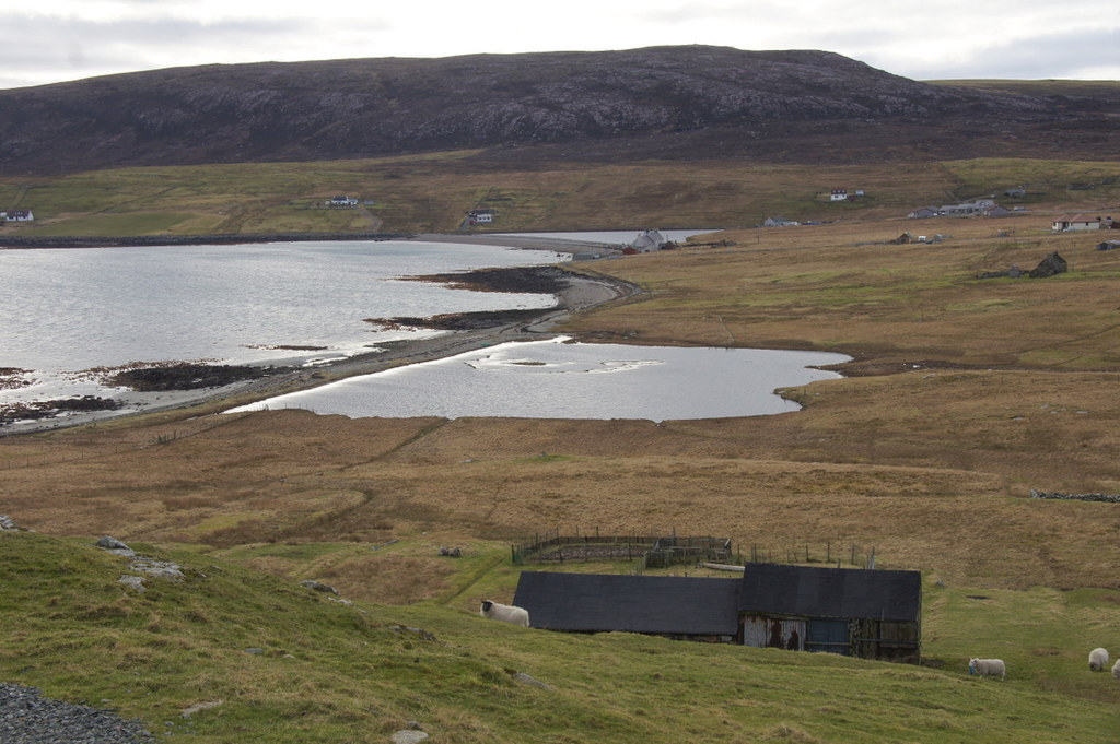 Loch of Beith, North Roe, in the front. Separated from the bay Burra Voe by an ayre. Also to be seen is the Loch of the North Haa in the middle, the white house at its shores is North Haa, a listed building. Beorgs of Skelberry in the background.